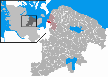 This map shows the area of the Gemeinde (municipality) Mönkeberg in the Kreis (district) Plön, Schleswig-Holstein, Germany.